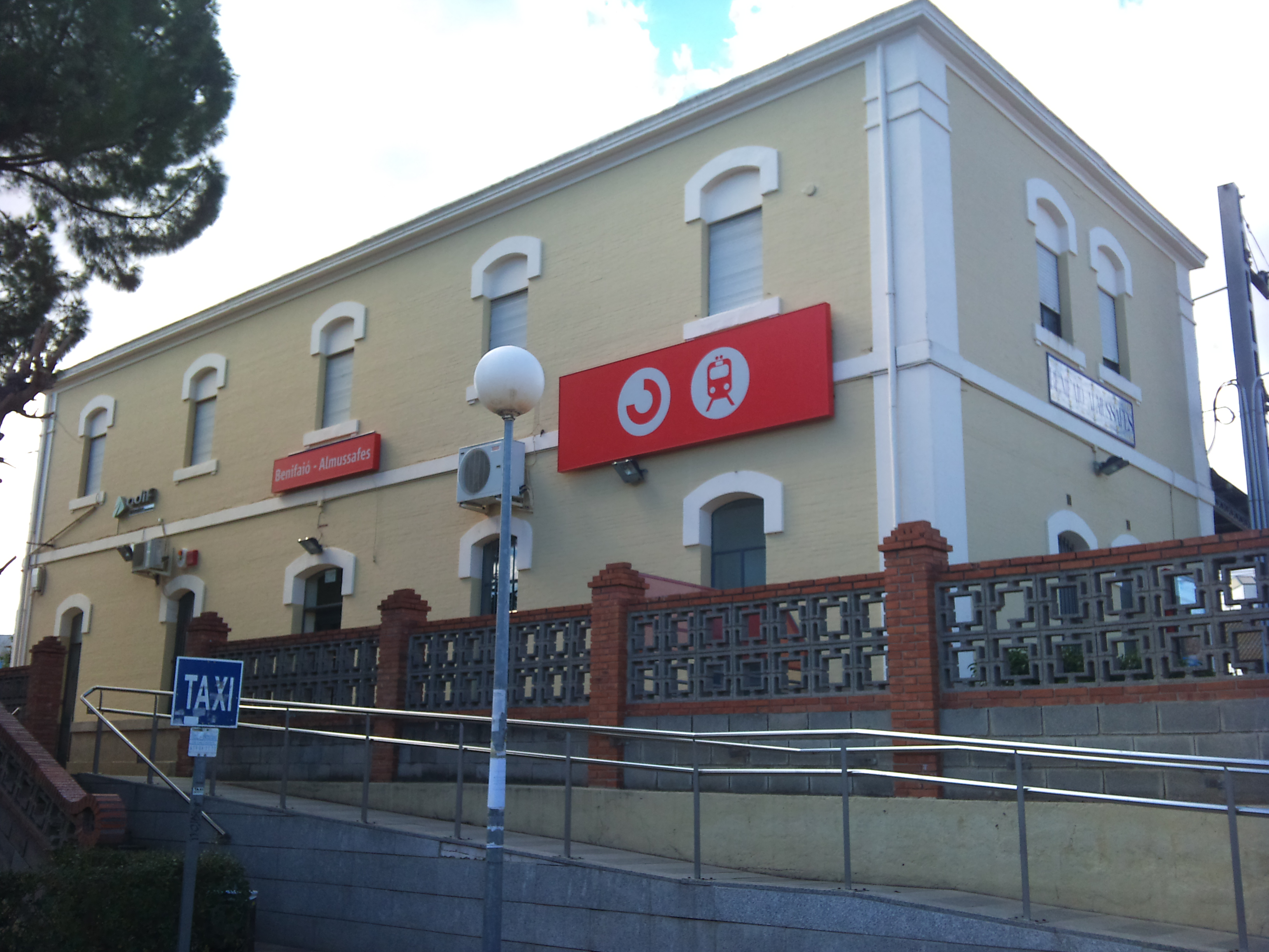 Panoramic view of the "Benifaió-Almussafes" station, in Benifaió, Ribera Alta, Land of Valencia.